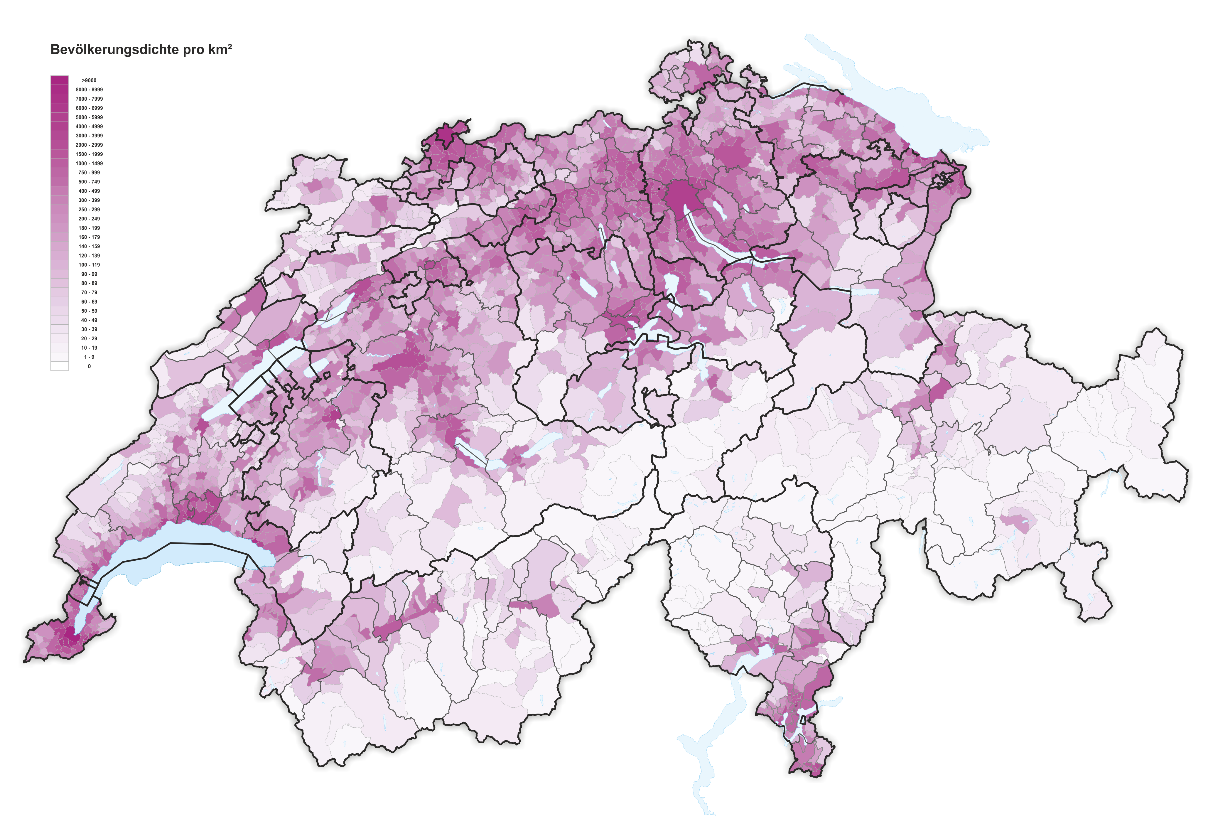 Population density in Switzerland